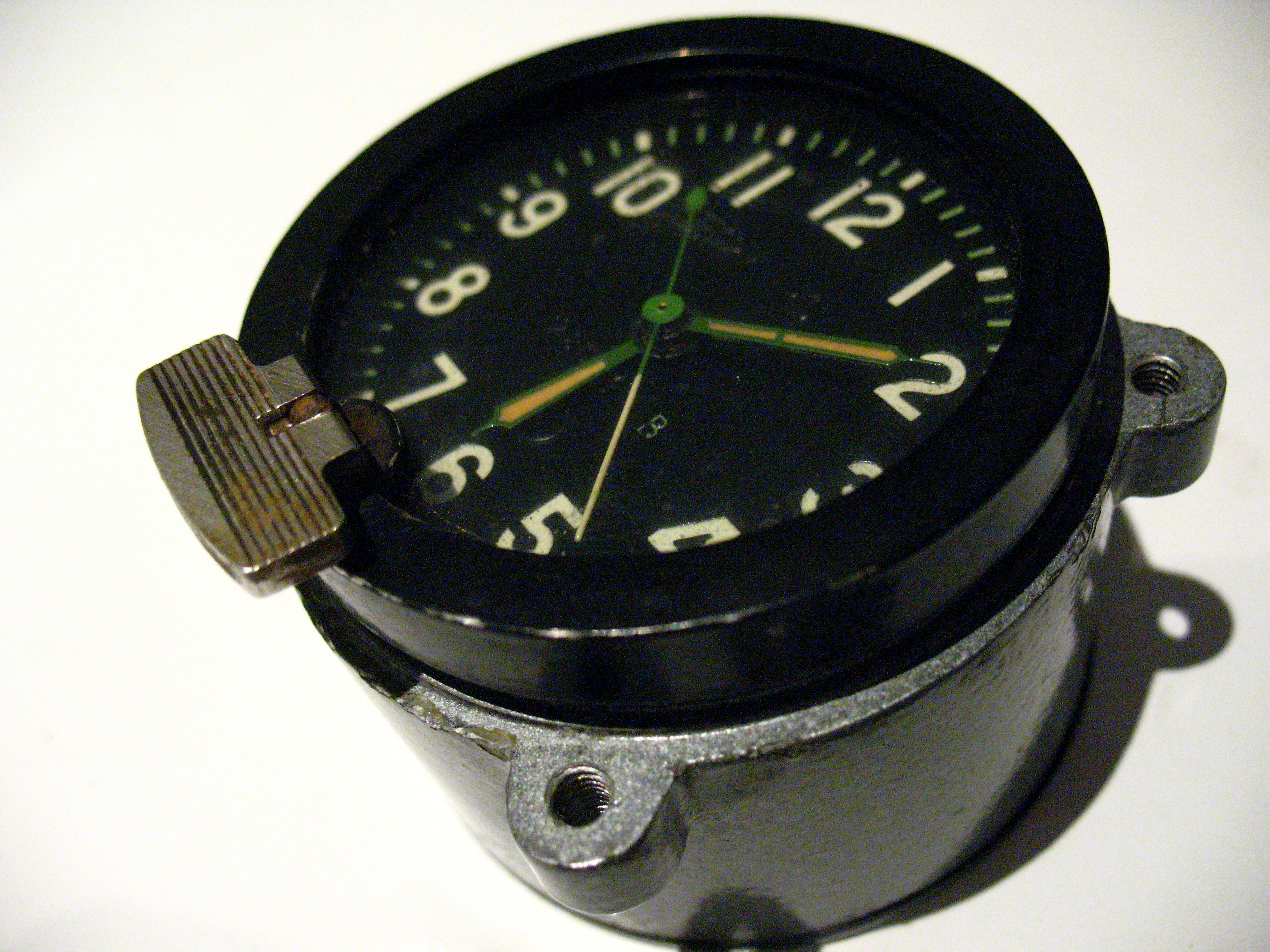 + 00000000001_Image_Aircraft clock